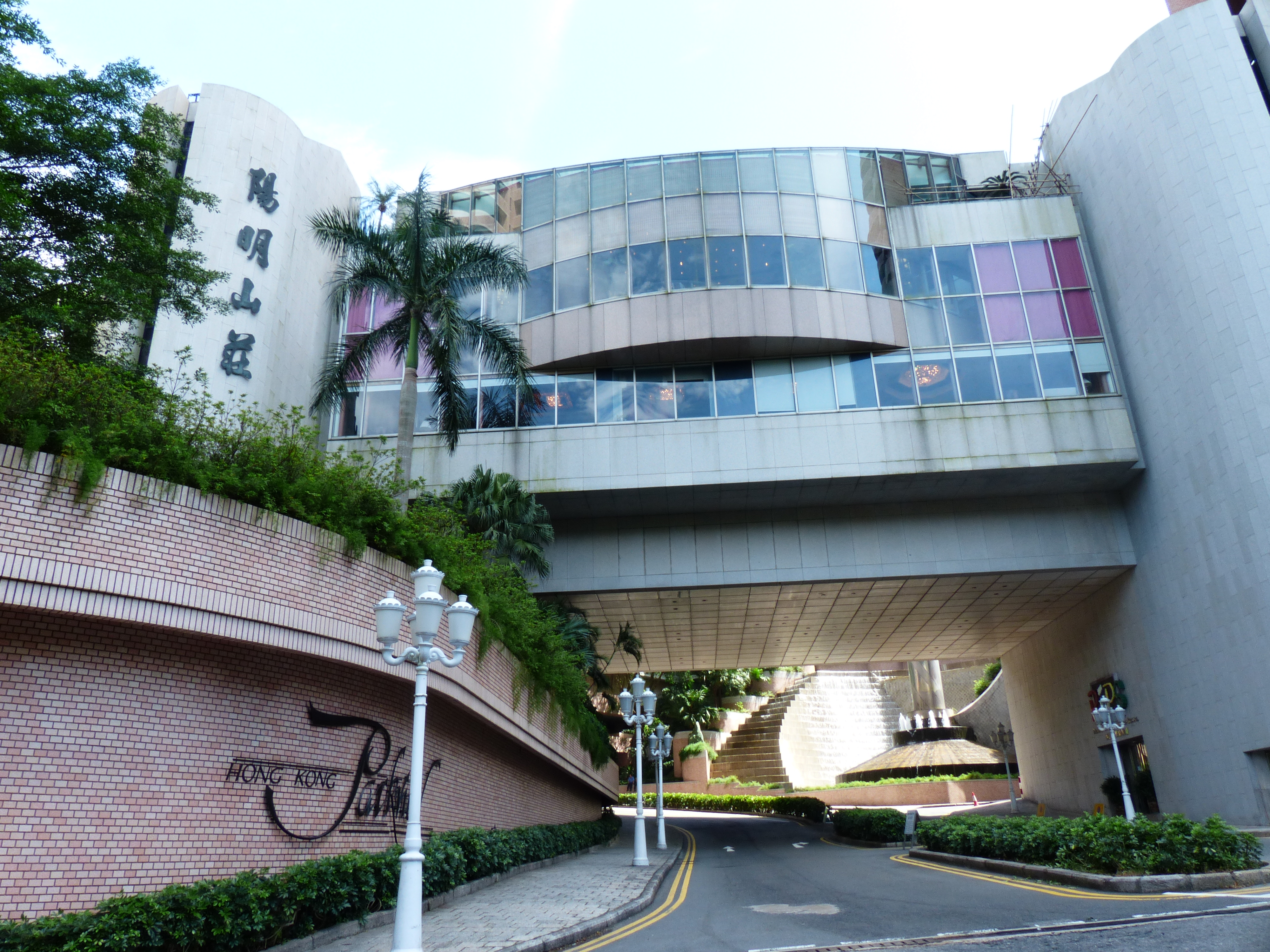 Hong Kong Parkview Entrance